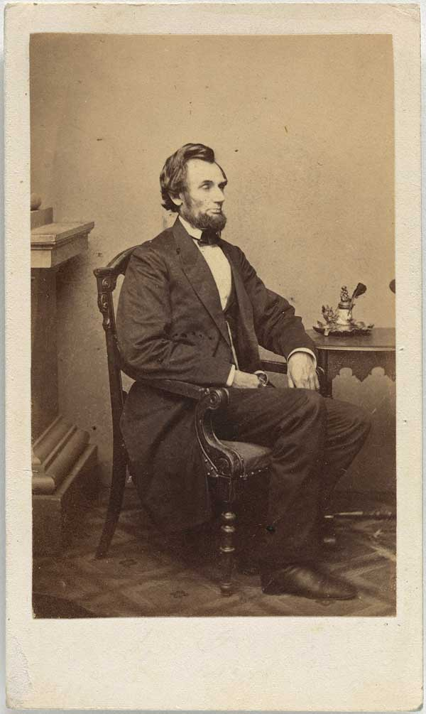 Description: The first sitting in Washington Lincoln was the first president after photography truly came of age. He embraced the new technology, sitting frequently, and he was interested in both technological issues and composition. Perhaps because of his early struggle to make himself into somebody of substance?to make himself visible?Lincoln was acutely aware of the power of image-making. Although Lincoln knew, and joked about, the fact that he was a difficult subject, he was not camera-shy, producing a continuous portrait record of his time in office. Attuned to public opinion, Lincoln used portraits to keep himself in the eye of his fellow citizens. When he arrived in Washington, Lincoln quickly arranged to have himself photographed at Alexander Gardner?s studio. These photographs were the first widely disseminated pictures of the president with his newly grown beard. Publisher: Edward & Henry T. Anthony & Company Creator/Photographer: Alexander Gardner Medium: Albumen silver print Dimensions: 8.6 cm x 5.4 cm Date: 1861 Persistent URL: [1] Repository: National Portrait Gallery Accession number: NPG.79.150